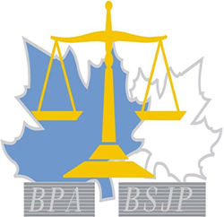 Gold coloured scales of justice flanked by a blue maple leaf on the left and a white maple leaf on the right. BPA/BSJP initials (English and French) on the bottom.